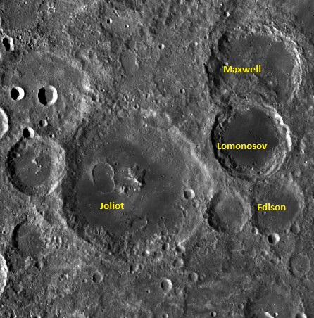 Joliot lunar crater